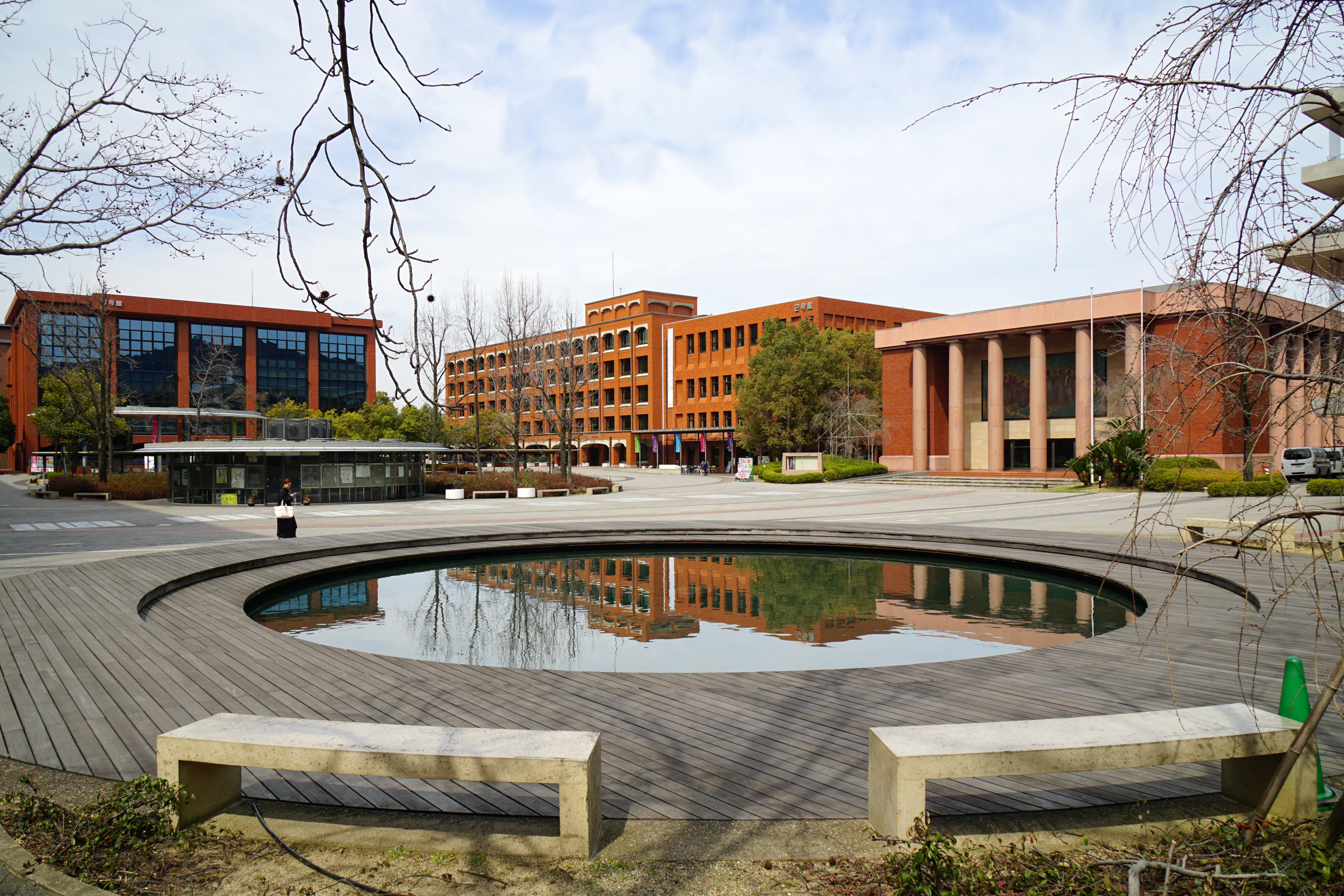 Ryukoku University Fukakusa Campus in Kyoto, Kyoto prefecture, Japan